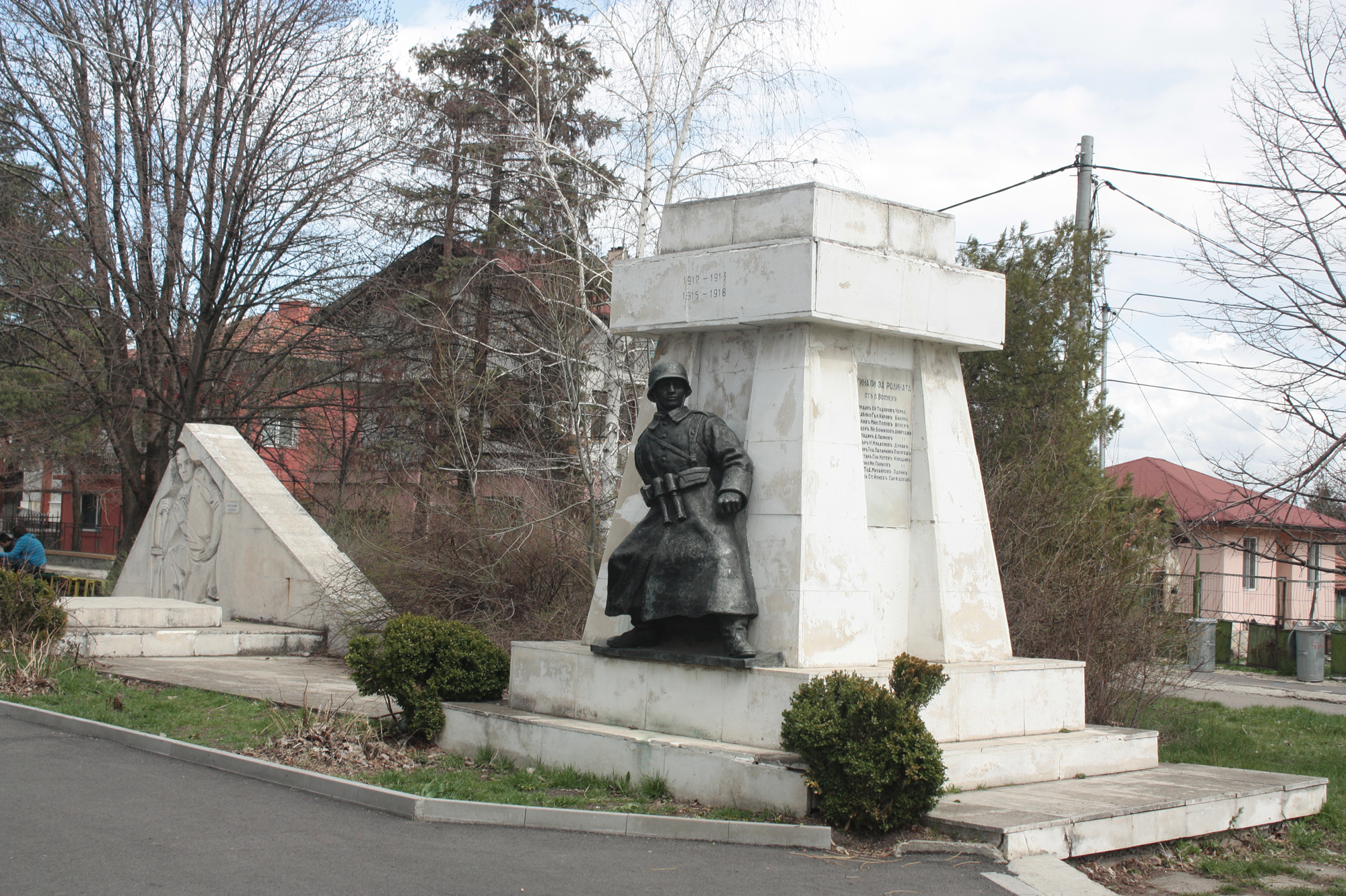 War memorial complex in Voluyak